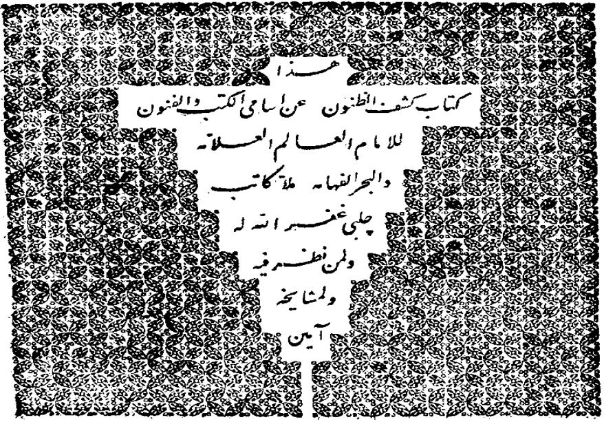 Cover of Bulaq edition of Keşfü'z-Zunûn by Haci Halife - 1274 H